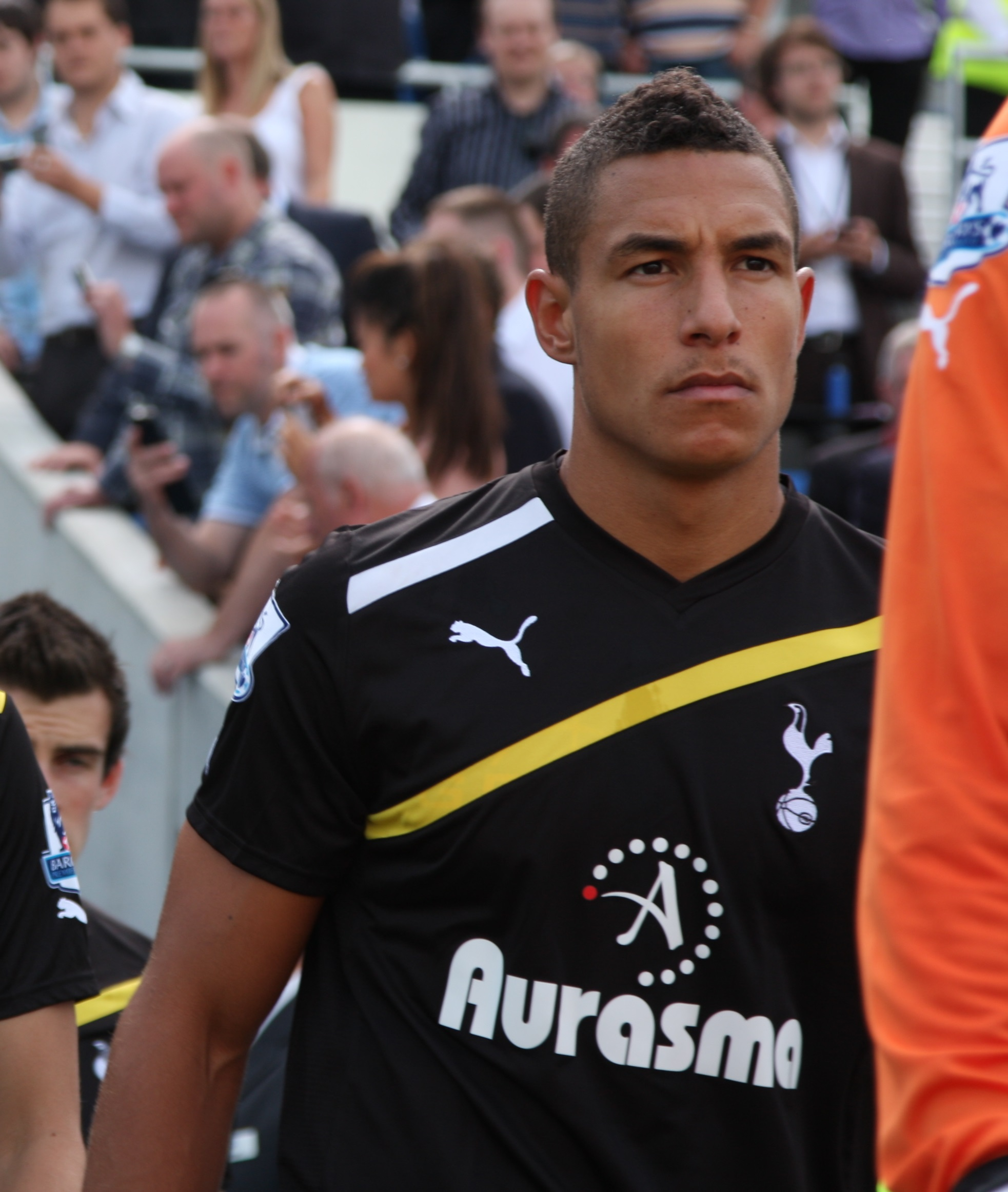 Jake Livermore. Image cropped from original at flickr.